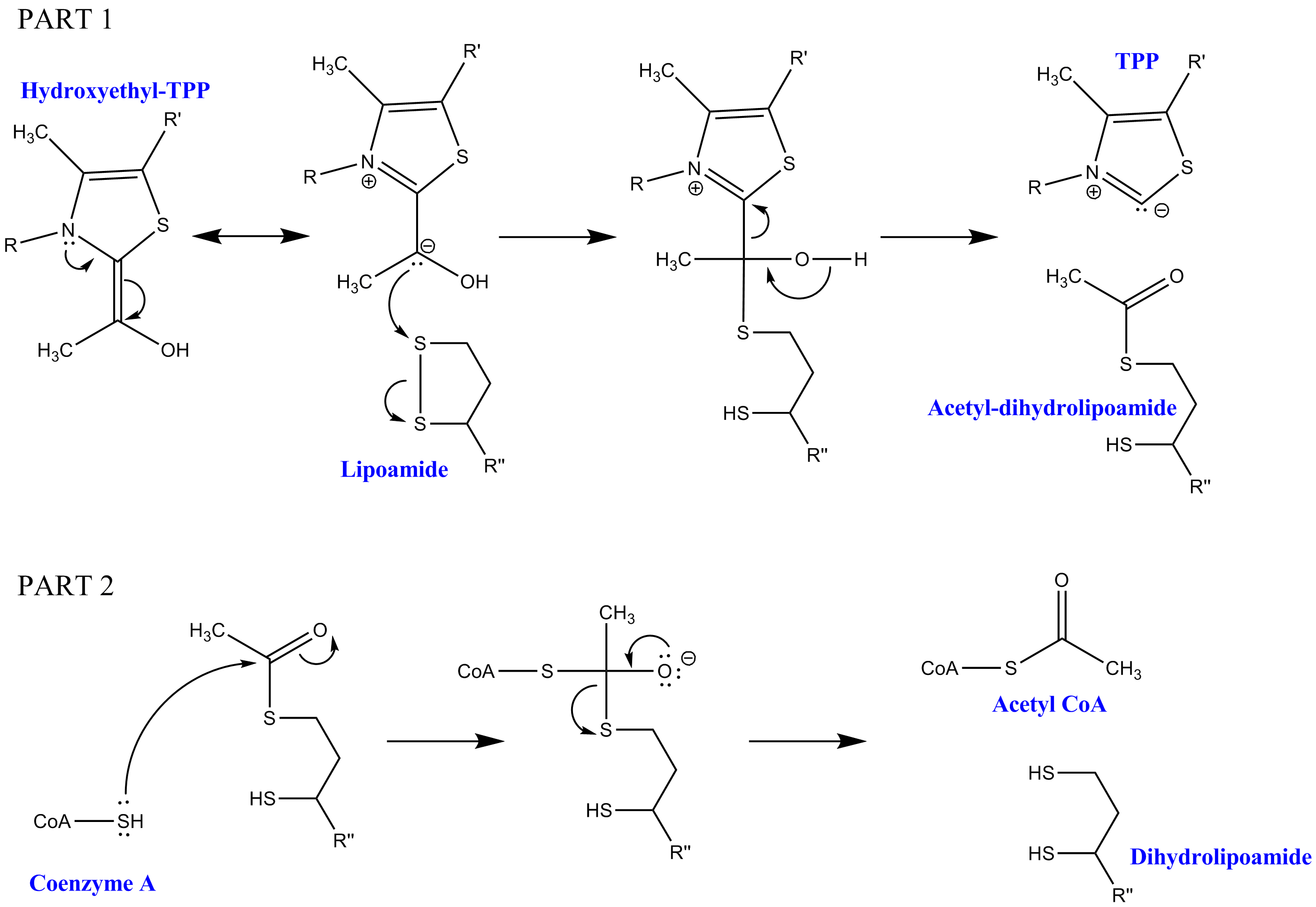 Adapted from Enzymatic Reaction Mechanisms